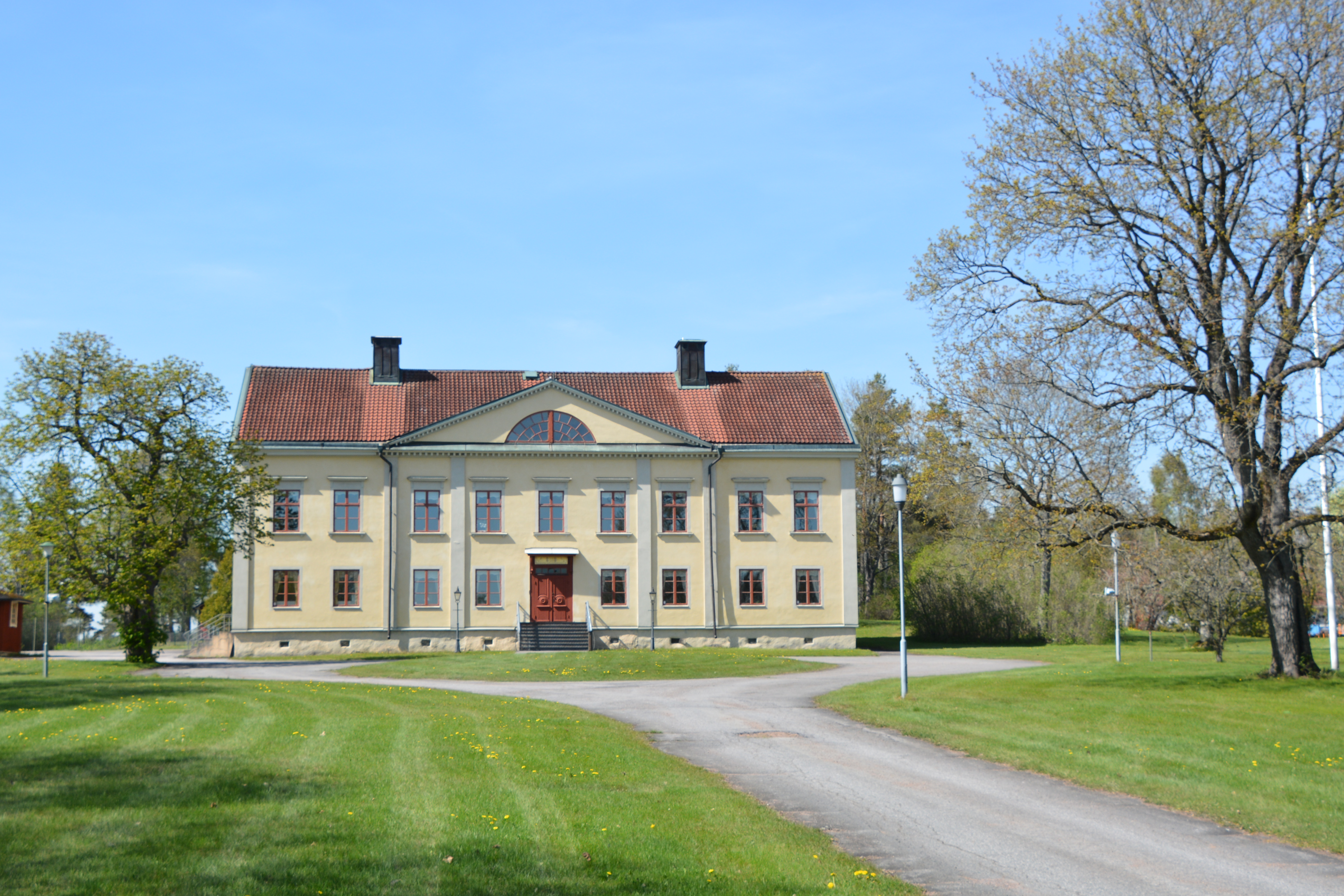 Herrgården, Storebro bruk, 1824